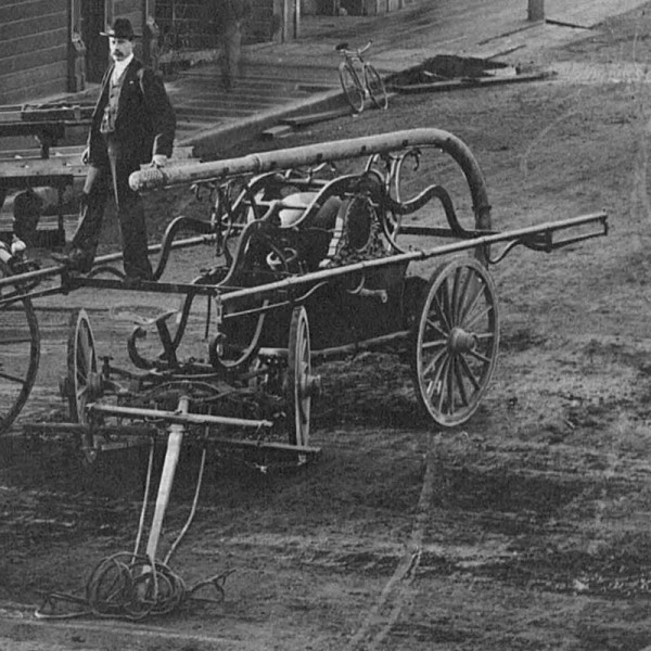 The "Franklin" end-stroke torrent pumper, manufactured by William C. Hunneman Company. Hunneman was an apprentice of Paul Revere who revolutionized fire-fighting by developing hand pumped fire equipment. The output was similar to a modern water cannon. Ferndale Enterprise photograph from the collection of the Ferndale Museum.